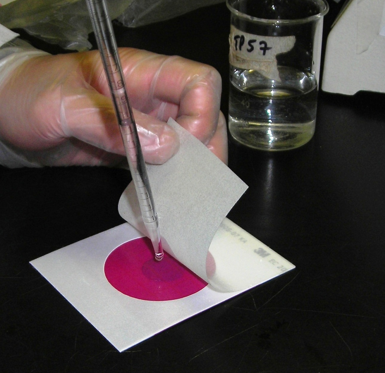 Inoculating the plate. Created and uploaded by Achiu31 18:40, 8 April 2007 (UTC)